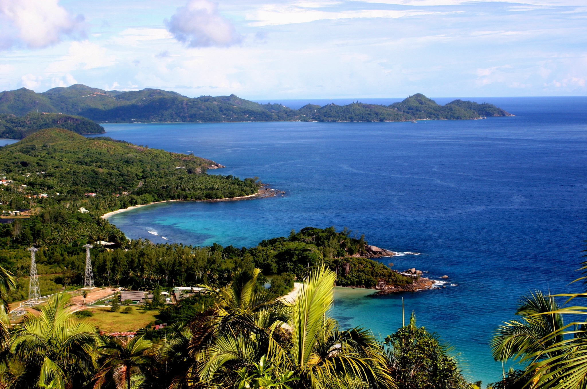 A view from where Jellyfish trees grow. The hike there was really hard. Photograped by Brocken Inaglory at Mahe Seychelles